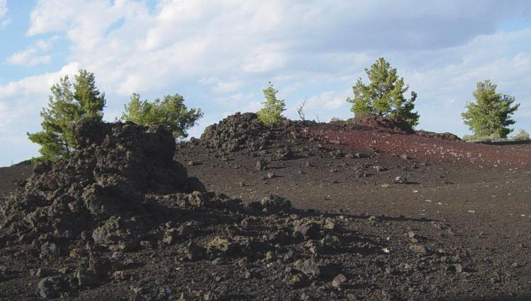 Photo taken by Daniel Mayer and released under terms of the GNU FDL.